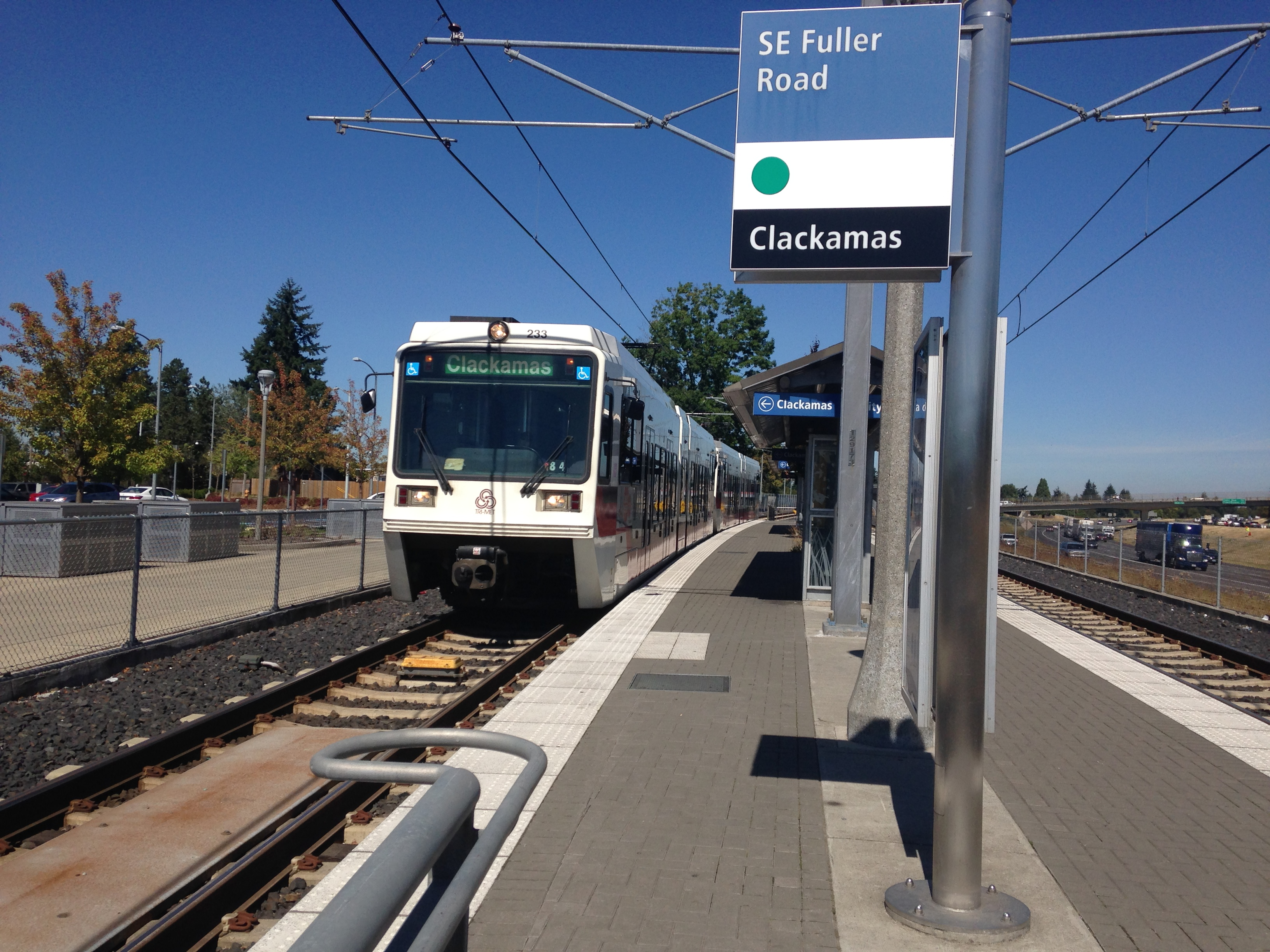 A southbound MAX Green Line train at SE Fuller Road Station in eastern Portland, Oregon.